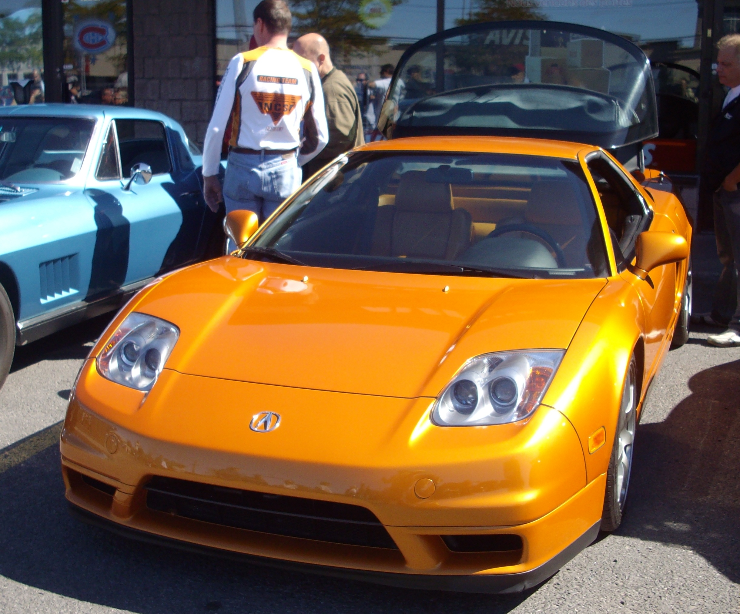 Acura NSX photographed in Montreal, Quebec, Canada at Auto classique Café Intervallo.